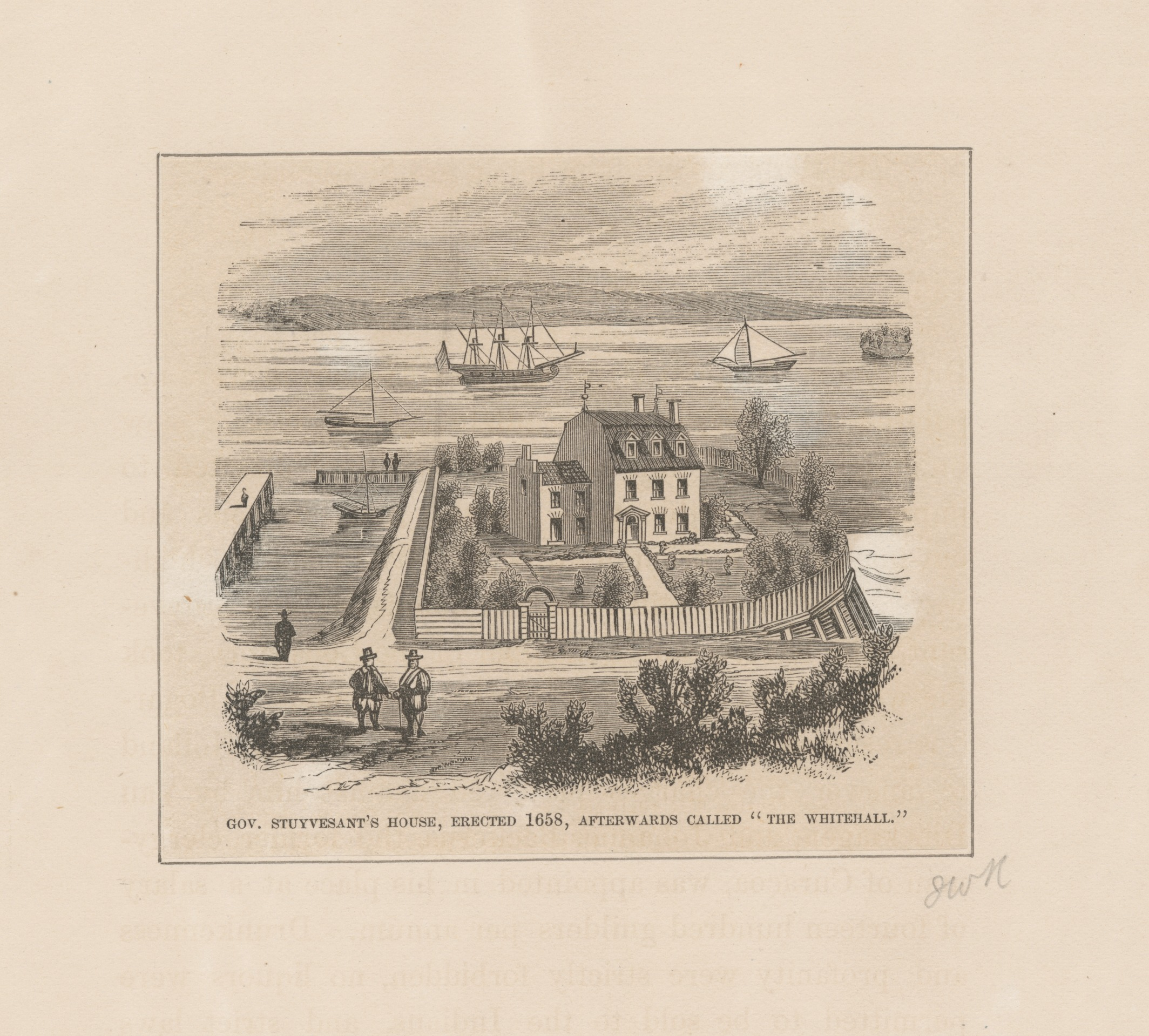 Includes photomechanical reproductions. Title from Calendar of Emmet Collection. EM10468